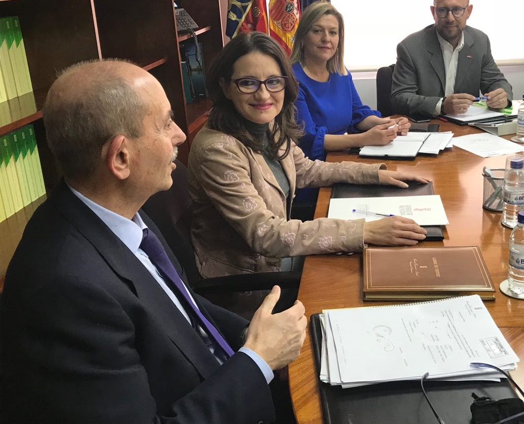 Carlos Alfonso